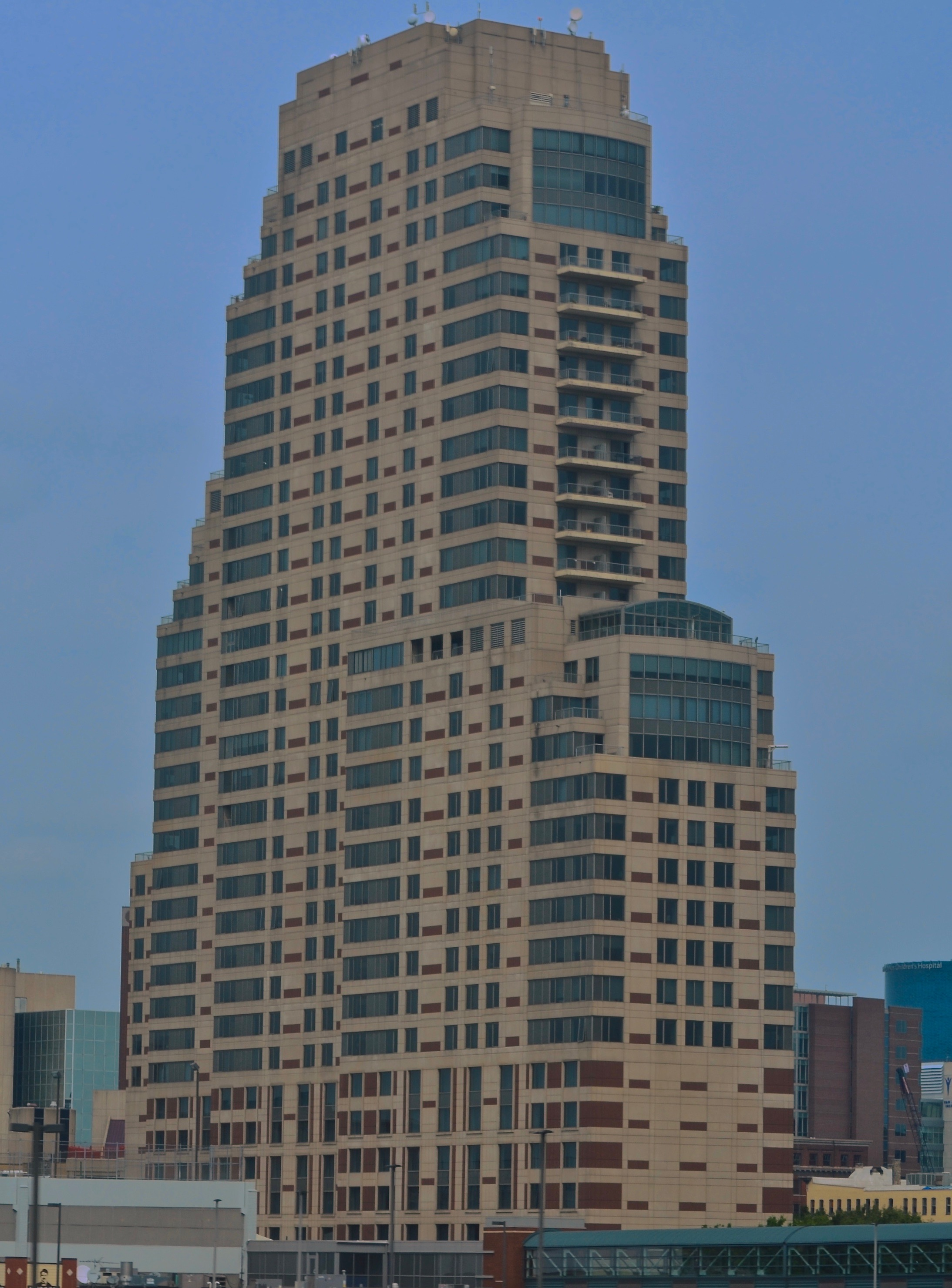 Plaza Towers in Grand Rapids, MI in August 2017.